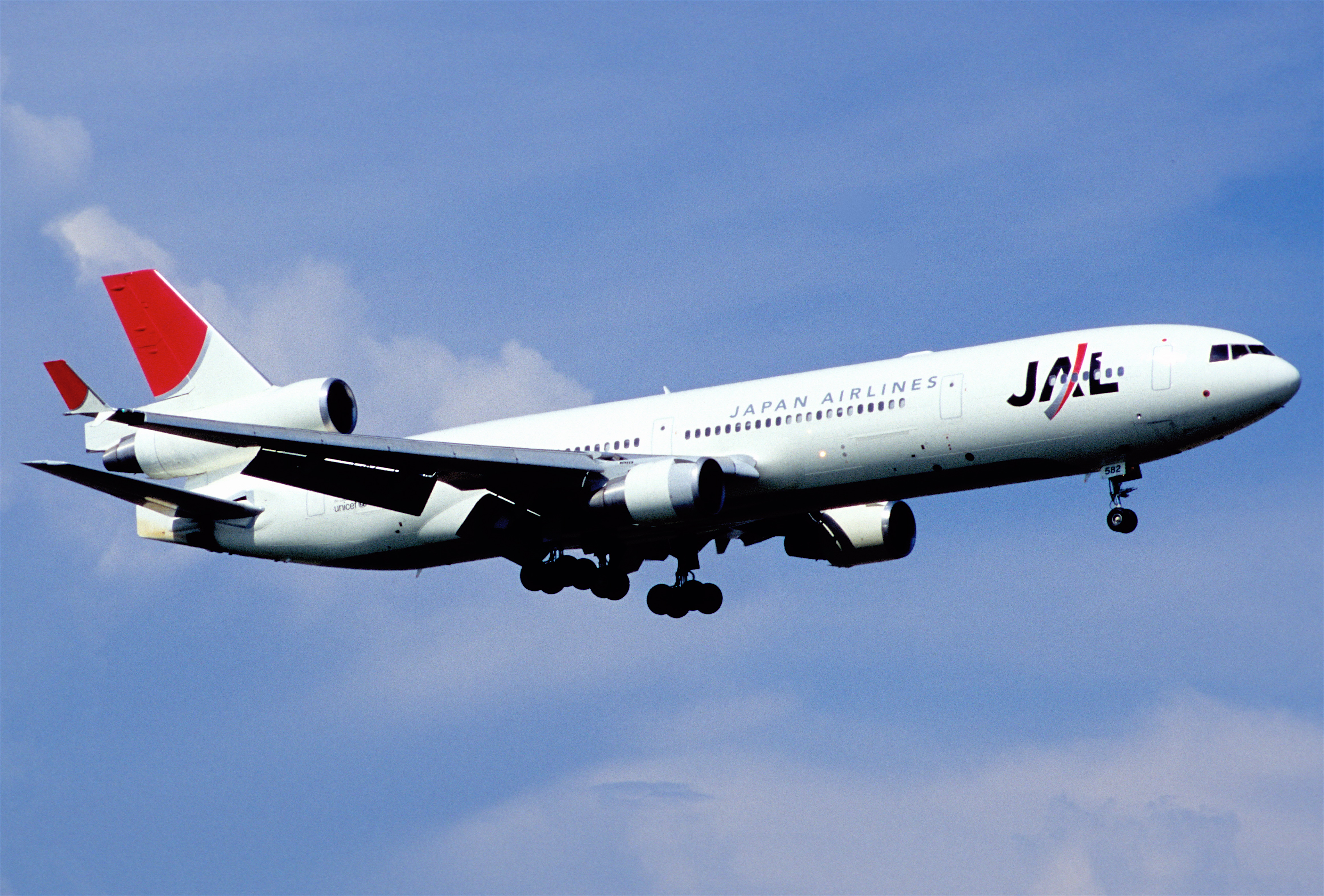 311ao - JAL - Japan Airlines MD-11; JA8582@ZRH;08.08.2004